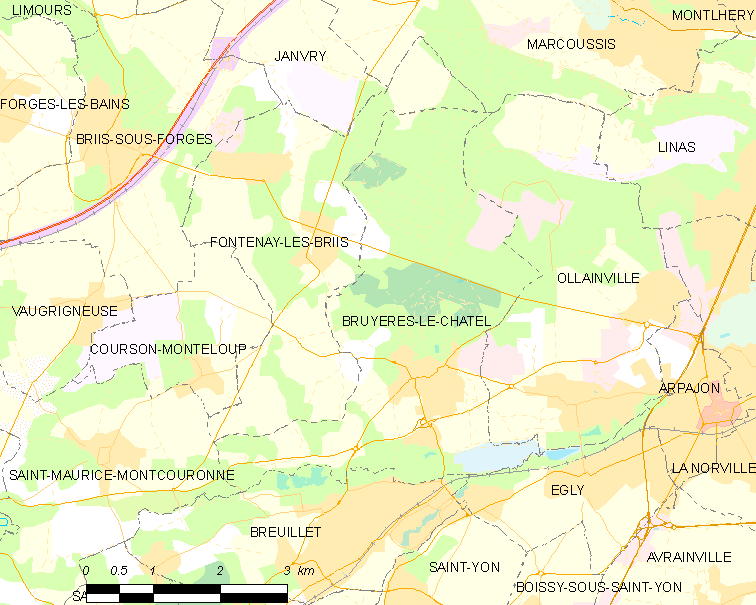 Map of French municipality Bruyères-le-Châtel